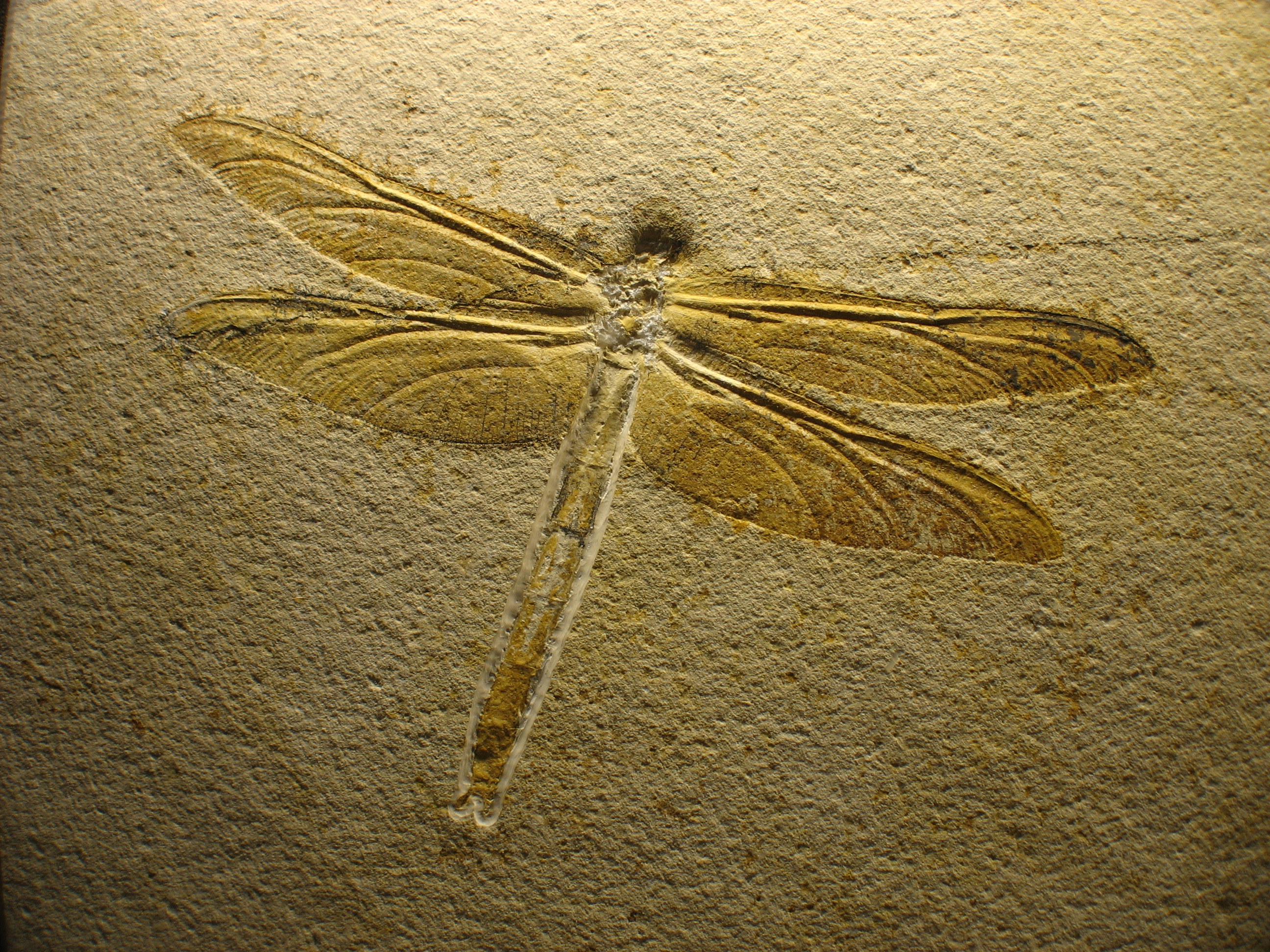 Late jurassic Odonata Cymatophlebia longialata, Solnhofen (Germany/Bavaria). Shown in "Bürgermeister Müller Museum", Sonhofen.